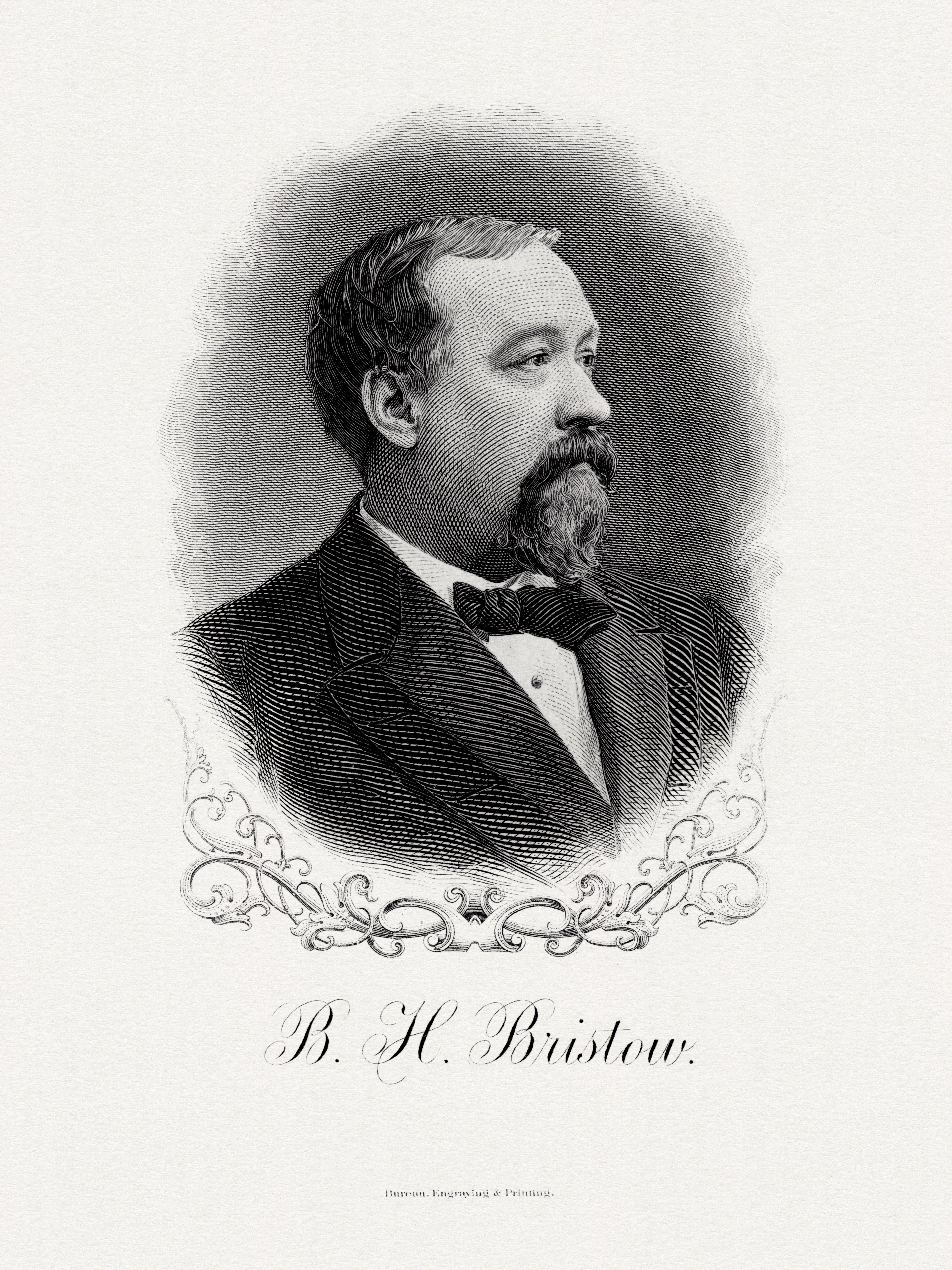 Engraved BEP portrait of U.S. Secretary of the Treasury Benjamin Bristow